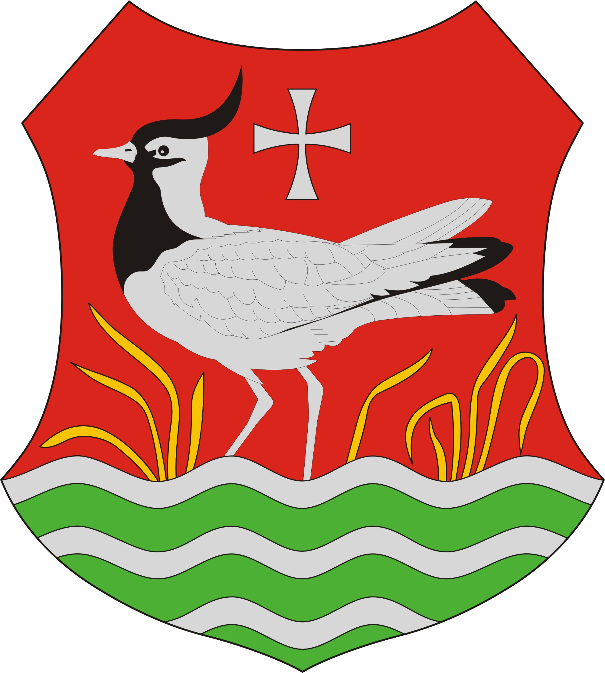 Coat of arms of Apátfalva, Hungary